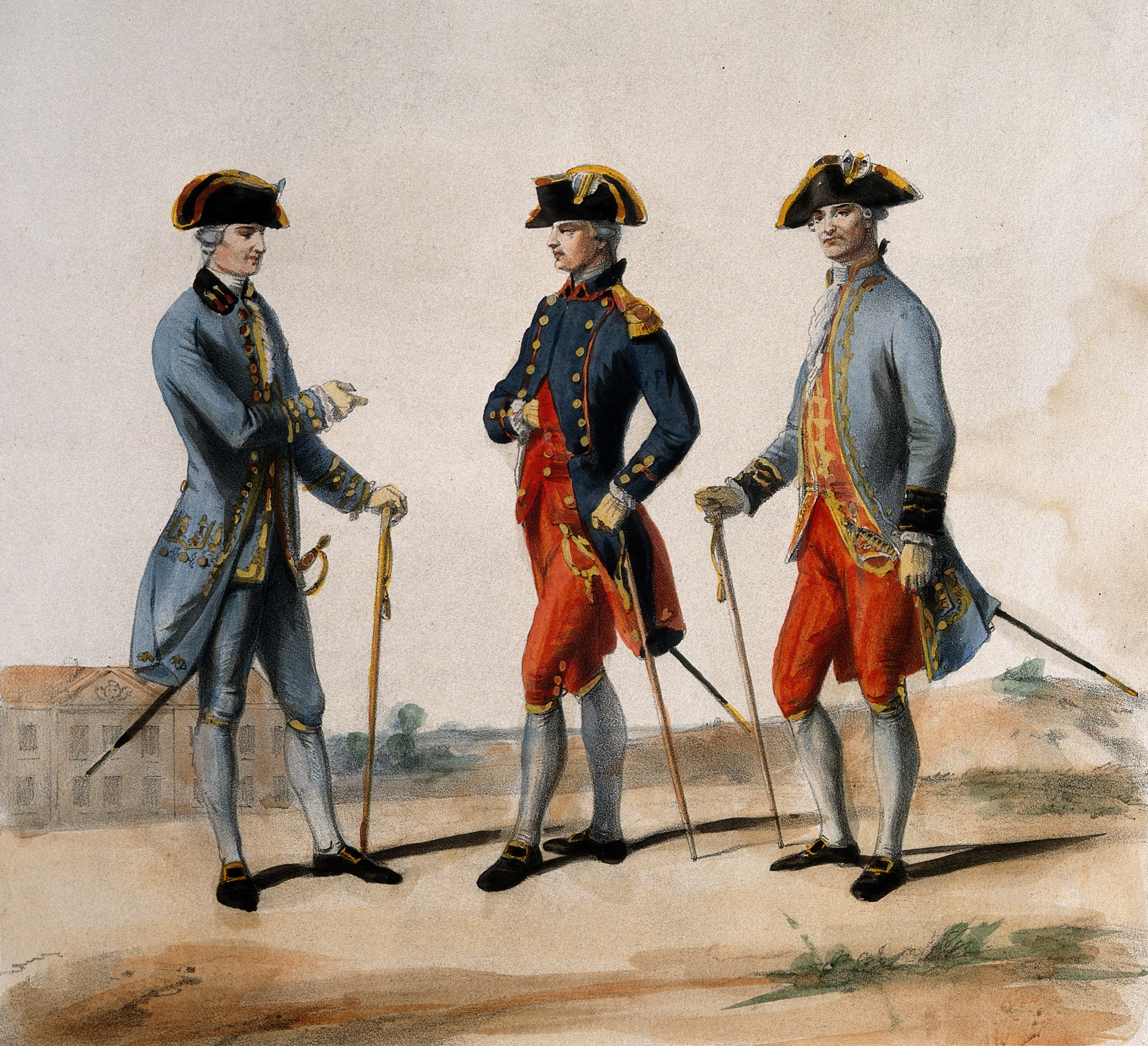 Three French army generals of Louis XVI in military dress, the inspectors of doctors, surgeons and the barracks. Coloured lithograph by G. David after A. de Marbot. Iconographic Collections Keywords: Alfred de. Marbot; Gustave David